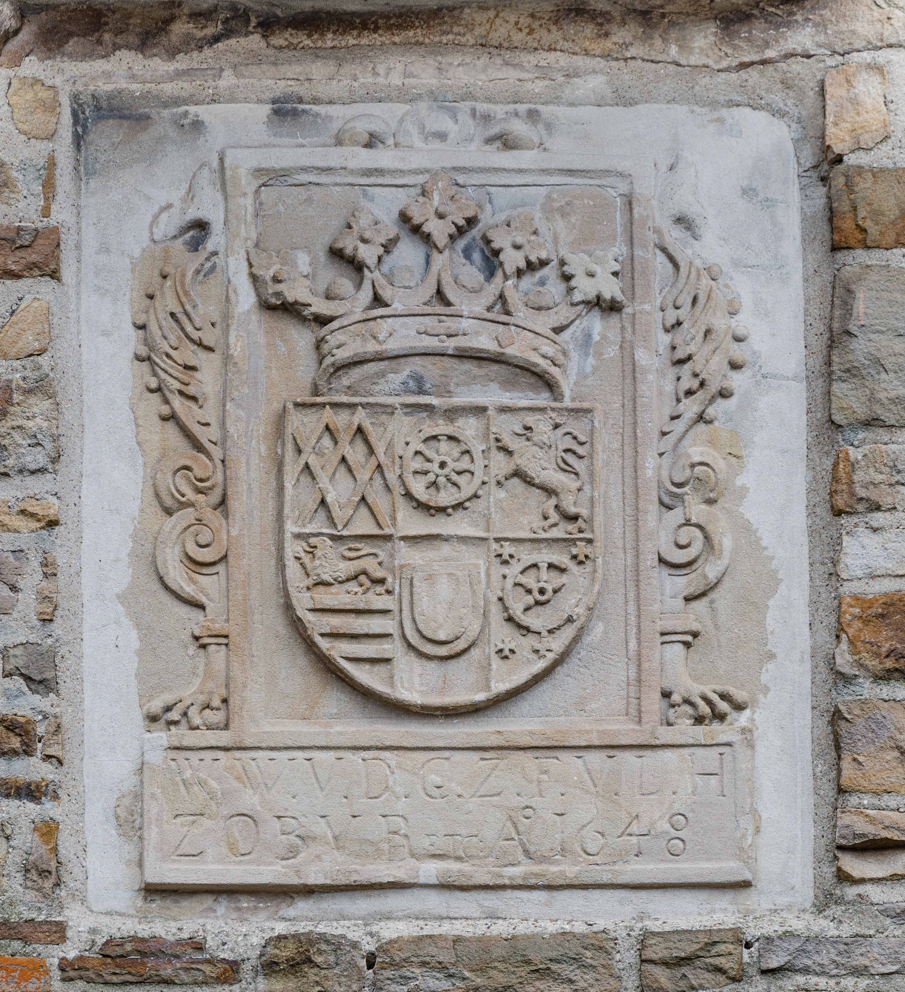 Coat of arms of William Wirich, Count of Daun-Falkenstein, precursor of the coat of arms of Mülheim an der Ruhr.